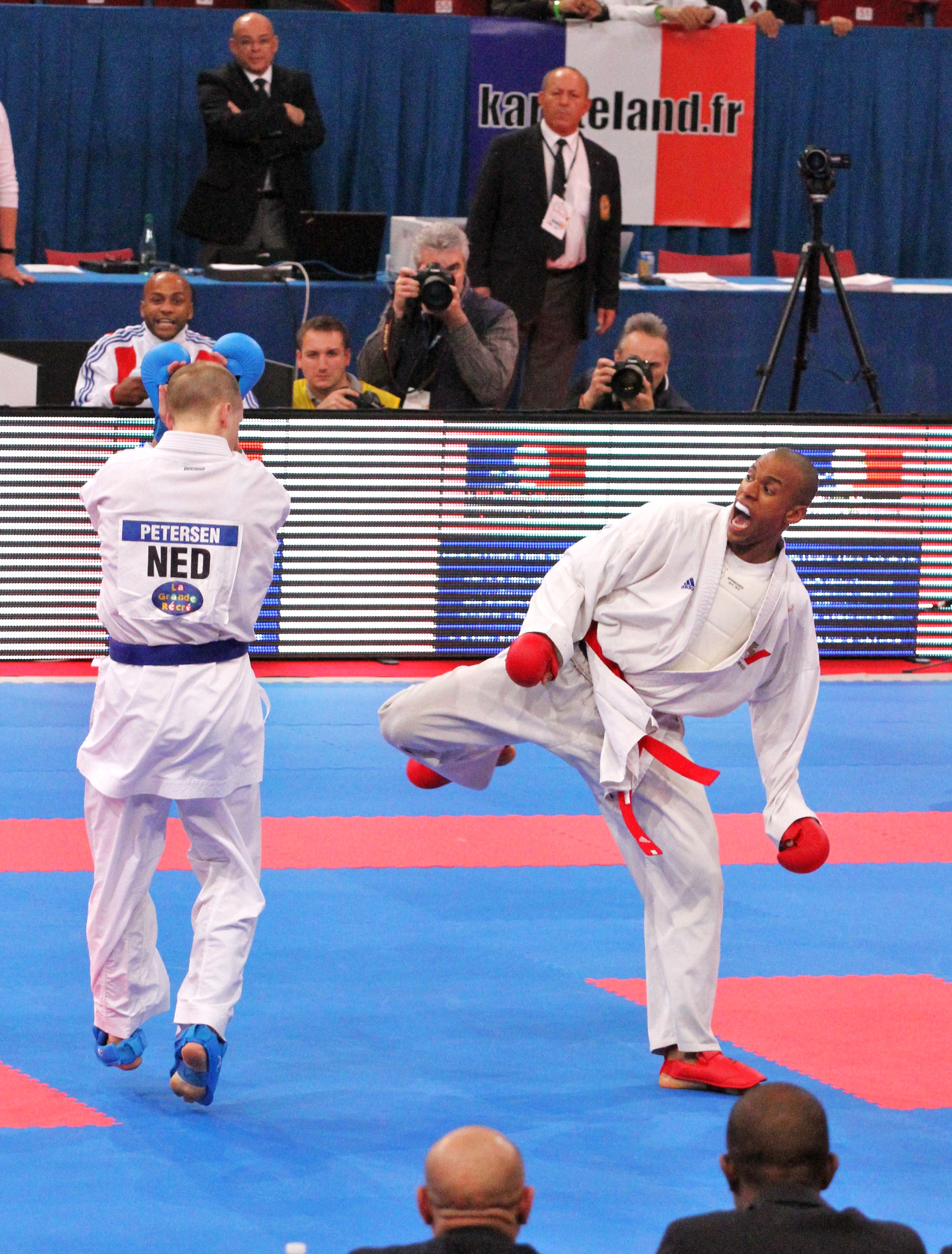 Karate World Champion 2012 (Kenji Grillon- France)